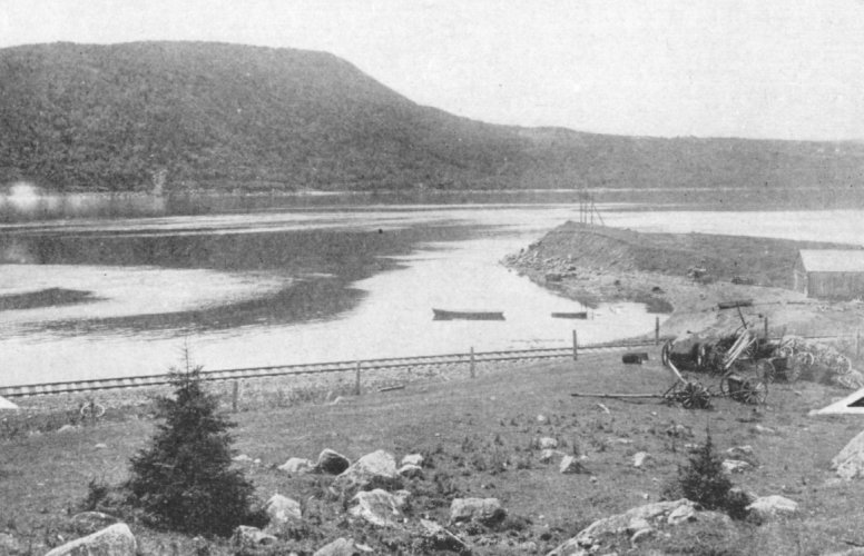 Strait of Canso from Port Hastings, Nova Scotia showing future location of causeway; Porcupine Mountain in distance.